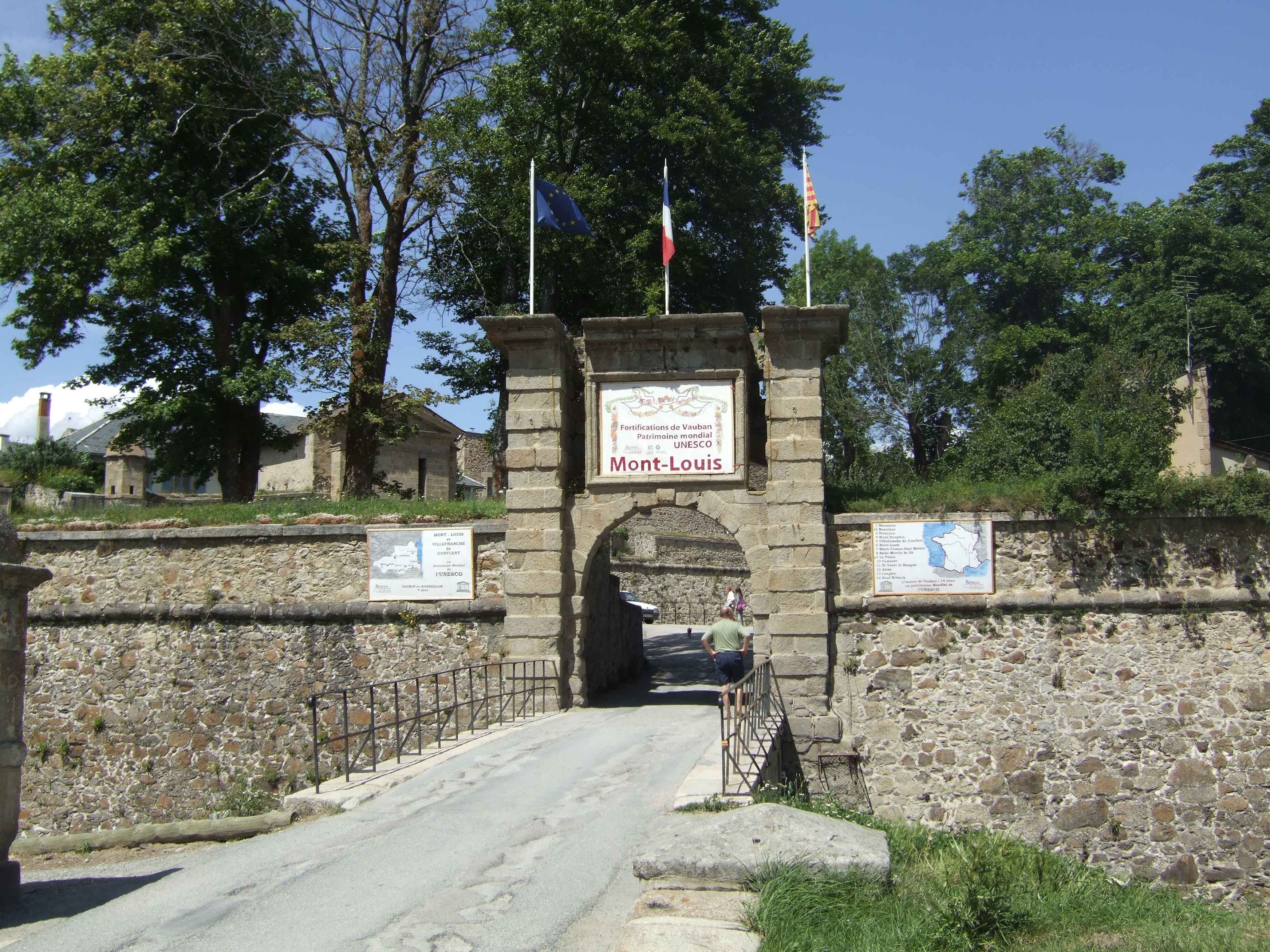 Mont-Louis (France): Gate face the RN 116